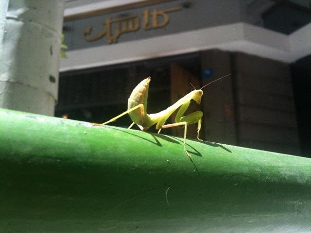 Mantis In Tehran